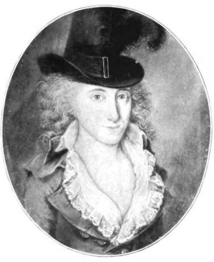 Baroness Antonia Cornelia Elbertine Scholten van Aschat et Oud-Haarlem. A member of a prominent Dutch banking family, she married James Greenleaf of Boston, Massachusetts, in 1788. She may have become pregnant by him and miscarried, or the pregnancy may have been a ruse. They married. Greenleaf expressed unhappiness with the marriage (which he may have entered into solely to gain access to Dutch bankers). The baroness had at least one son by Greenleaf by 1795. The couple divorced divorce on September 3, 1796. (She may also have divorced him on grounds of abandonment in the Netherlands. The painting is dated either 1793 or 1795, by an unknown Dutch artist. (Clark, p. 90.))